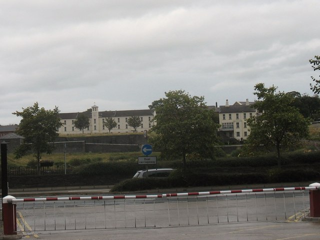 Ebrington Barracks from the Ulsterbus Station Ebrington Barracks built in 1841, and now disused, stands on the east bank of the Foyle in the district known as the Waterside. It was protected by star shaped fortifications. Until its closure in 2002, it was used as a military and a naval base. During World War II the port of Londonderry and Lough Foyle both played a vital role in the Battle of the Atlantic.